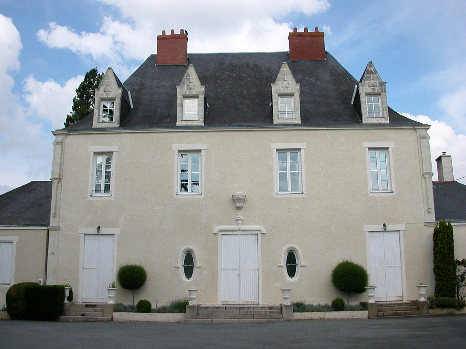 Grande Jaunaie manor in Saint-Sébastien-sur-Loire